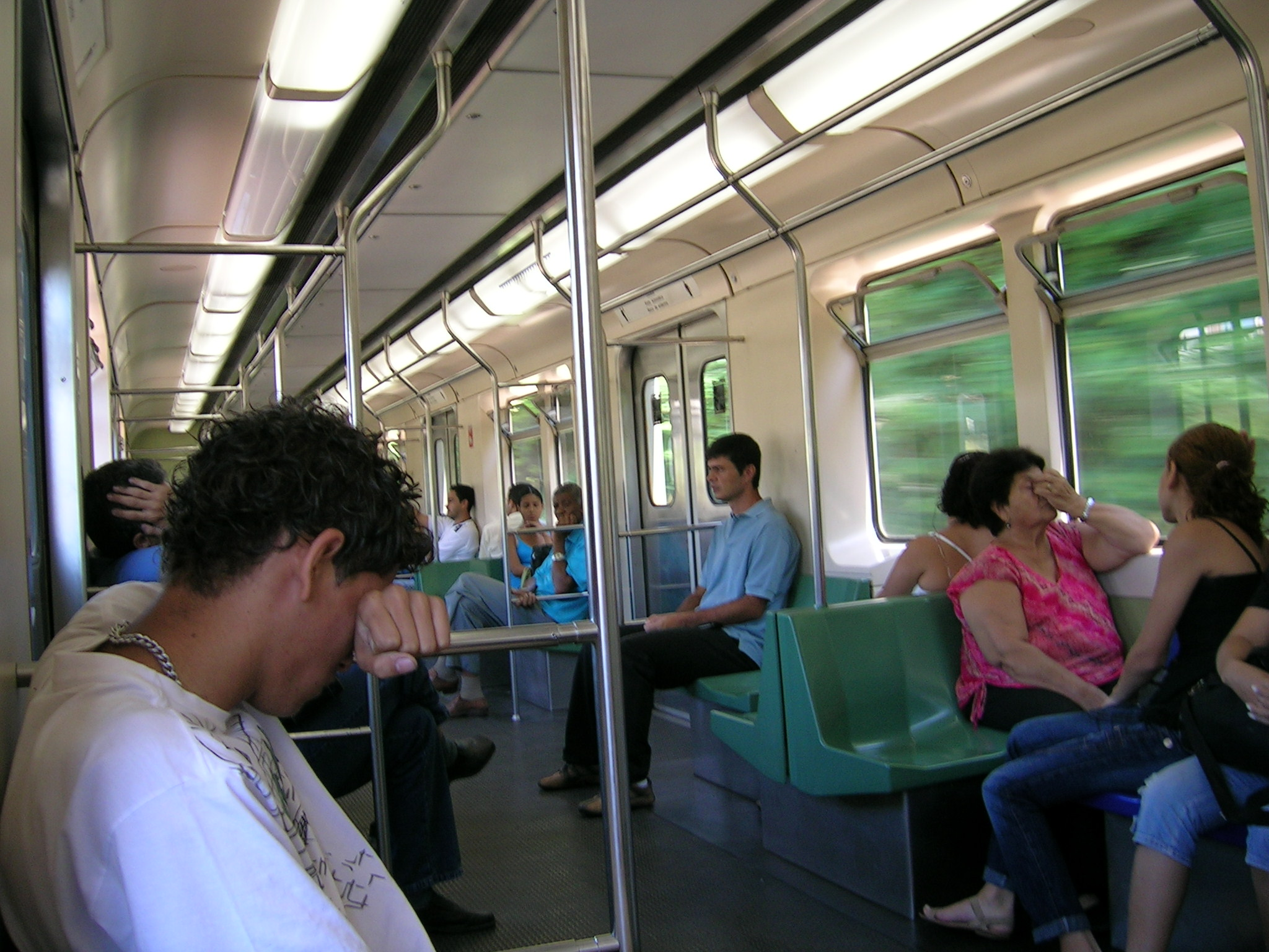 Belo Horizonte Metro train interior